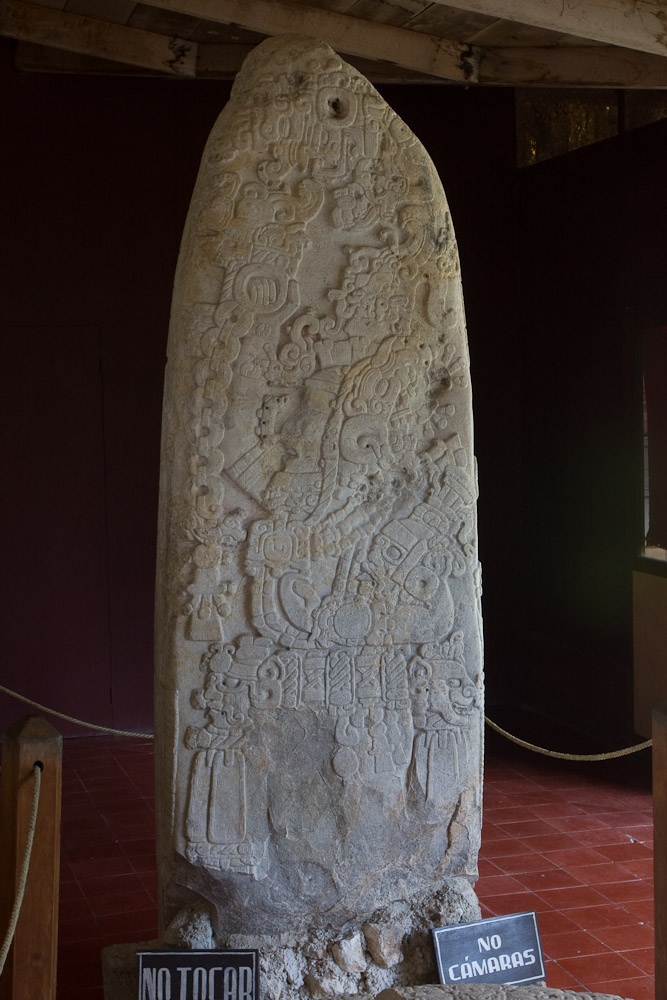 Stela 31 at the Maya site of Tikal (Guatemala) depicting king Sihyaj Chan K'awiil II